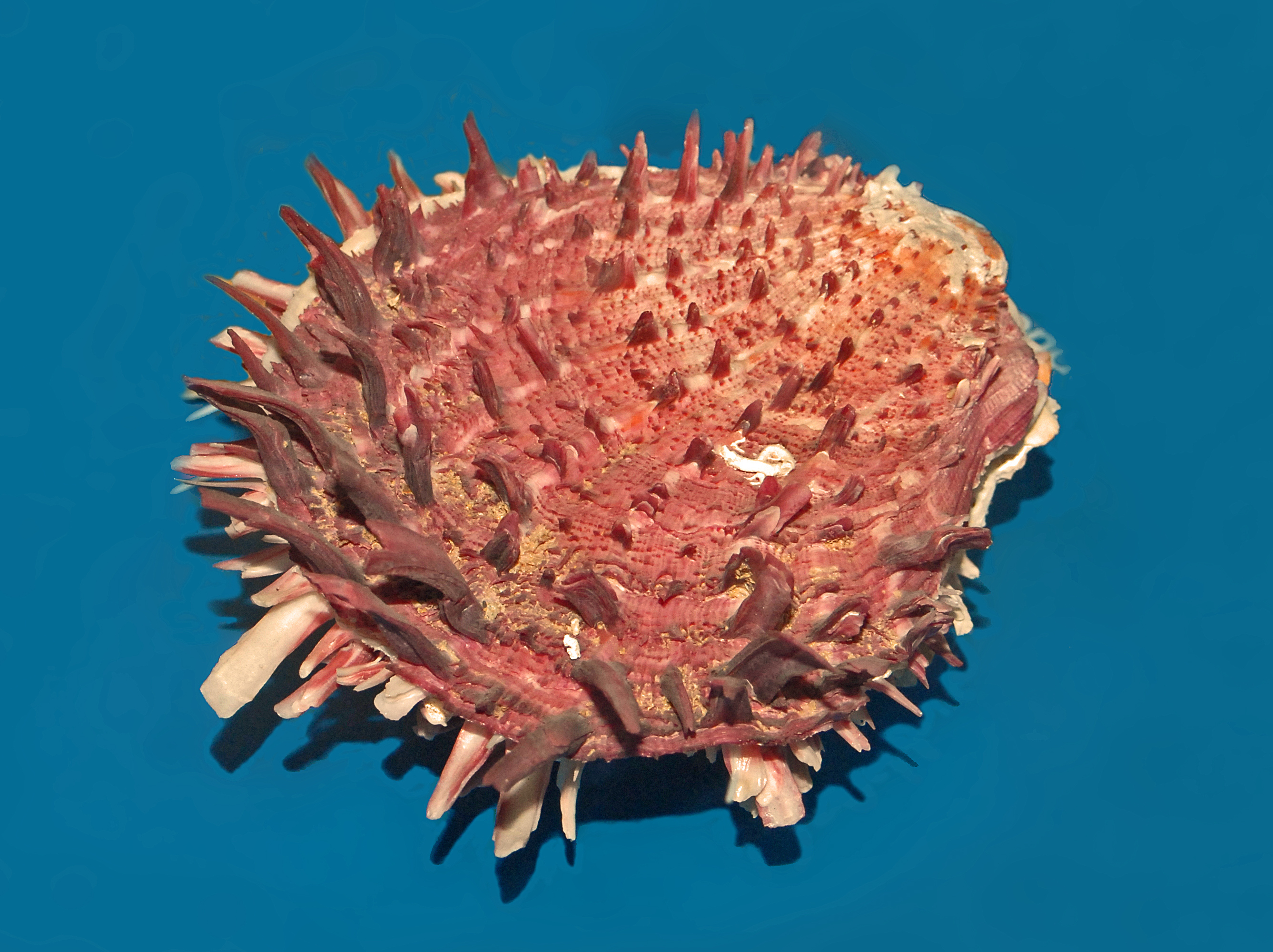 Spondylus gaederopus from Sicily, on display at the Museo Civico di Storia Naturale di Milano